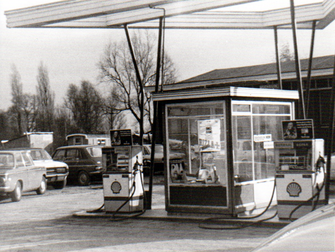 Shell service station Reedijk in Mijnsheerenland, late 1970s